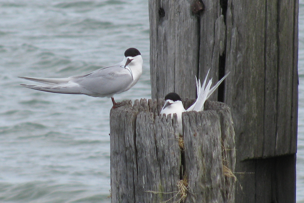 A pair of adult White-fronted Tern and their nest at Bayswater, Auckland City, New Zealand.